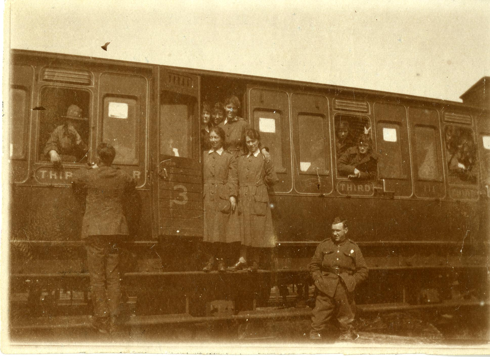 Jenny McLellan is in the door, left. From the Cruickshank family fonds, PR1969.0097/44.